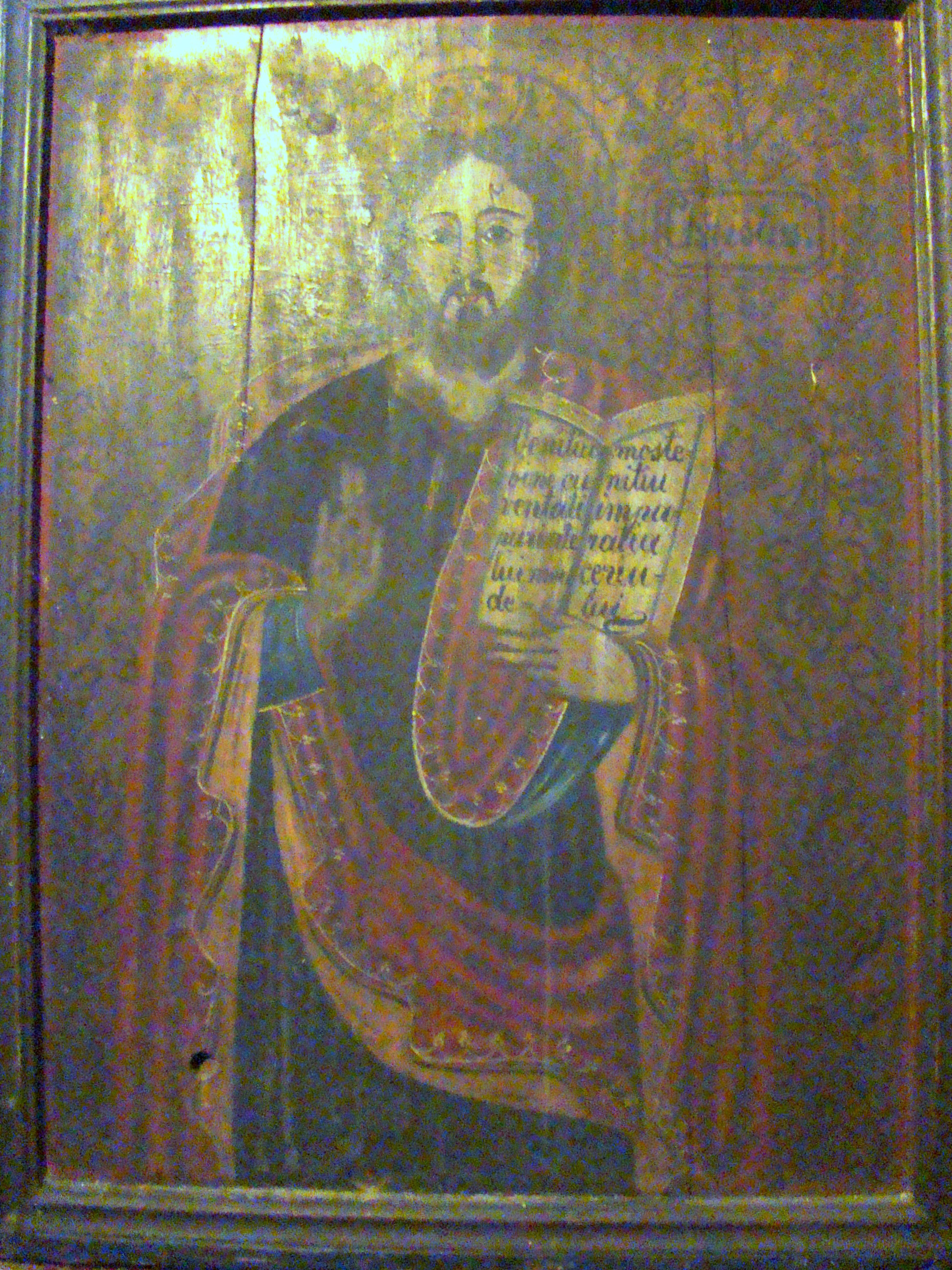 Wooden church in Bărăi, Cluj county, Romania